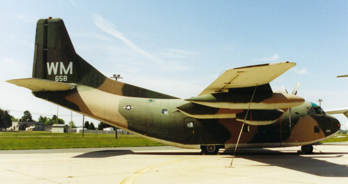 A Fairchild C-123K Provider (s/n 54-0658) of the U.S. Air Force "Air Mobility Command Museum" at Dover Air Force Base, Delaware (USA). The aircraft is painted in the colours of the 315th Air Commando Wing (Troop Carrier) (1968 Special Operations Wing, and 1970 Tactical Airlift Wing), 319th SOS/TAS, tail code "WH" where this aircraft served in Vietnam. The Wing was deactivated in 1972. Later this aircraft was supplied by the U.S. Department of State to Peru and used to fight drug trafficking. In 1990 it was donated to the museum.